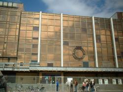 The Palast der Republik, Berlin, taken in 2003 by C. Ford.